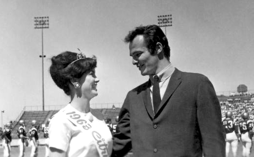 Local call number: PR12935b Title: Burt Reynolds With Citrus Queen at Garnet and Gold Football Game Physical descrip: 1 photonegative: b&w; 60mm. Date: Photographed on March 20, 1963 Series title: Print Collections Repository: State Library and Archives of Florida, 500 S. Bronough St., Tallahassee, FL 32399-0250 USA. Contact: 850.245.6700. Persistent URL